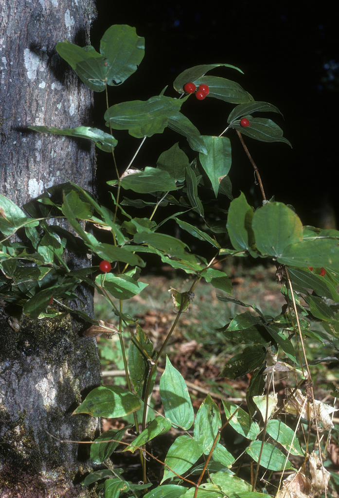 Prosartes hookeri, Benton County, Oregon, USA.